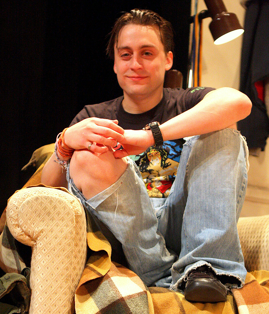 Kieran Culkin: This Is Our Youth Tour, Play Comes To Sydney Opera House 2012.